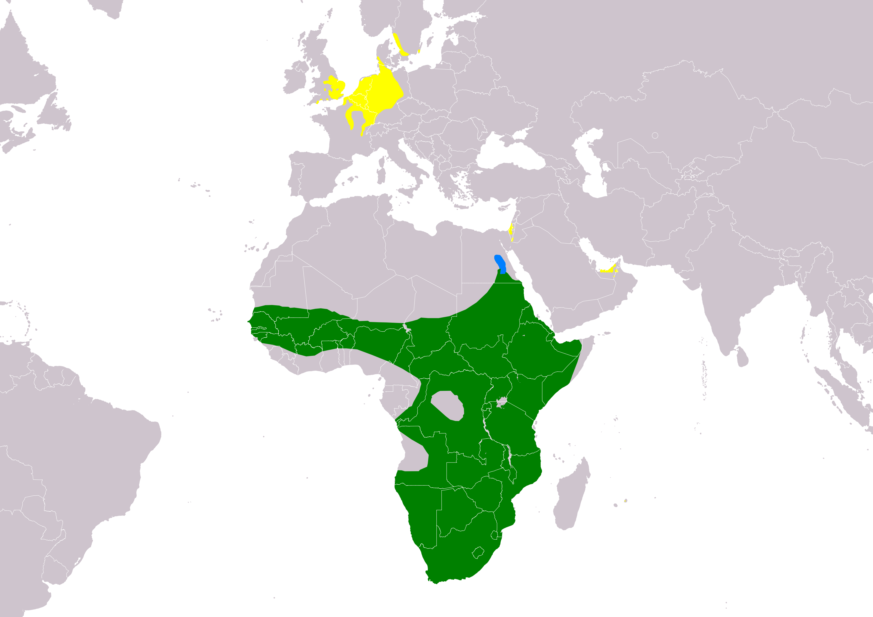 Distribution map of egyptian goose (Alopochen aegyptiaca) according to IUCN version 2019-2 ; key: Legend: Extant, resident (#008000), Extant, non-breeding (#007FFF), Extant & Introduced (resident) (#FFFF00)